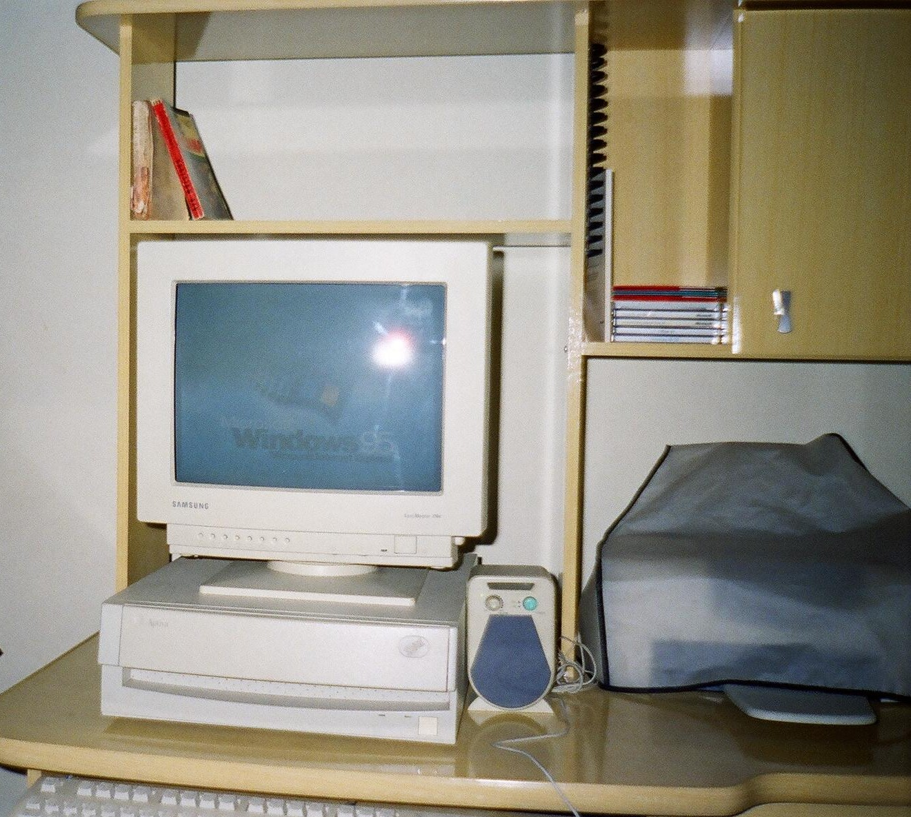 IBM Aptiva 486 booting Windows 95